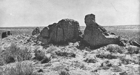 Plate 48. "Adobe church at Hawikuh". The church in this village was constructed of adobe bricks, without the introduction of any stonework. The bricks appear to have been molded with an unusual degree of care. The massive angles of the northwest, or altar end of the structure, have survived the stonework of the adjoining village and stand to-day 13 feet high. (Pl. XLVIII.)